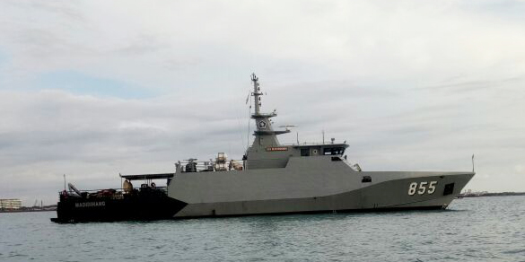 KRI Madidihang (855) close up